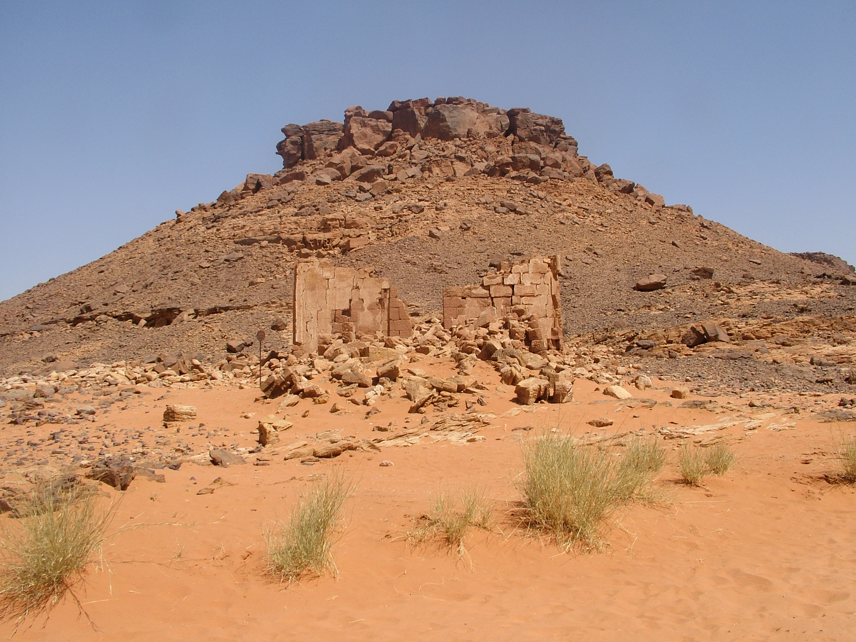 Shanadakheto (meroitic) queen's temple in Naqa